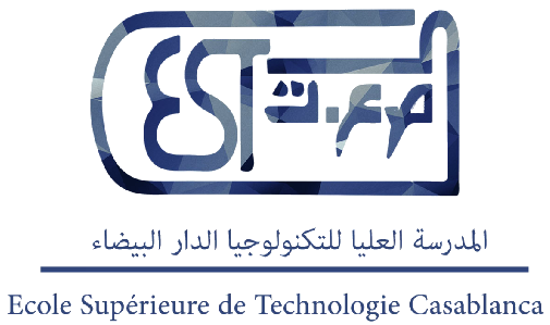 Logo of EST CASA